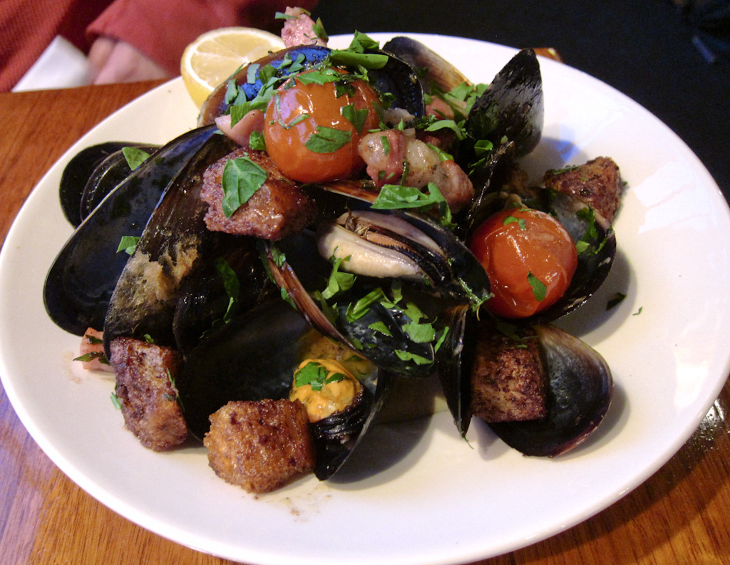 A seafood dish prepared with mussels, roasted cherry tomatoes and croutons